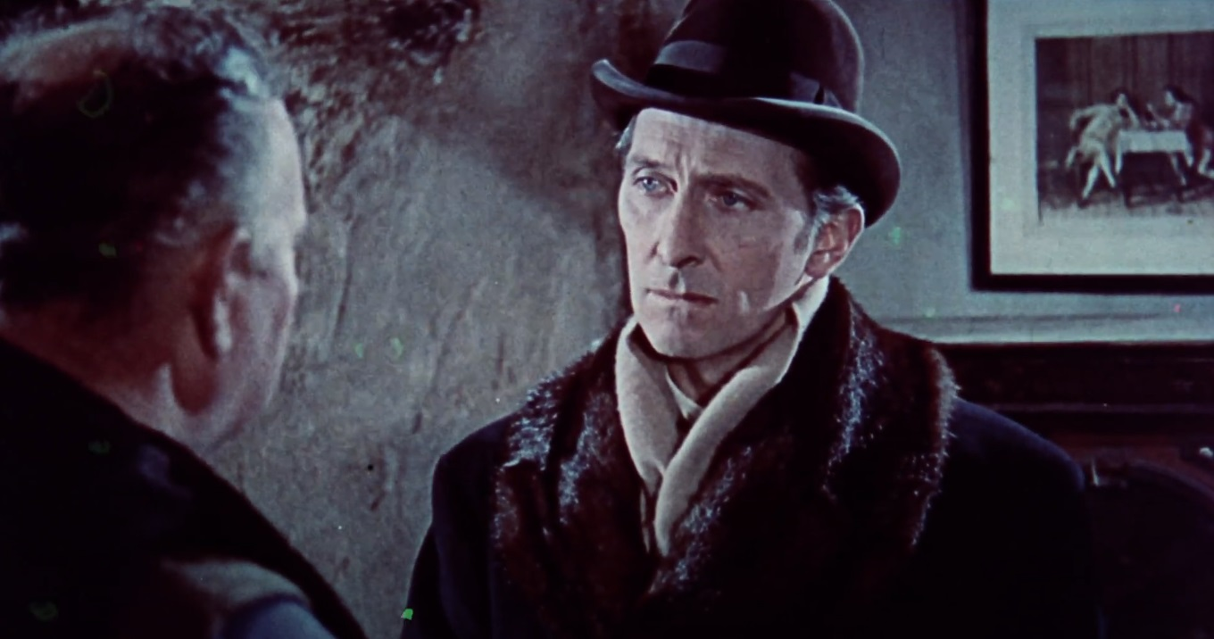 A screenshot from the trailer for Dracula (1958), an Hammer Horror production.